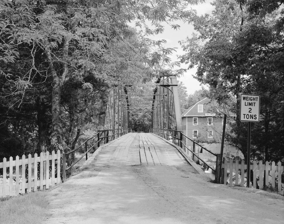 photos by Historic American Engineering Record, photp in 1988 by Louise Taft (US Federal government employee) (documentation at I just trimmed the edges.